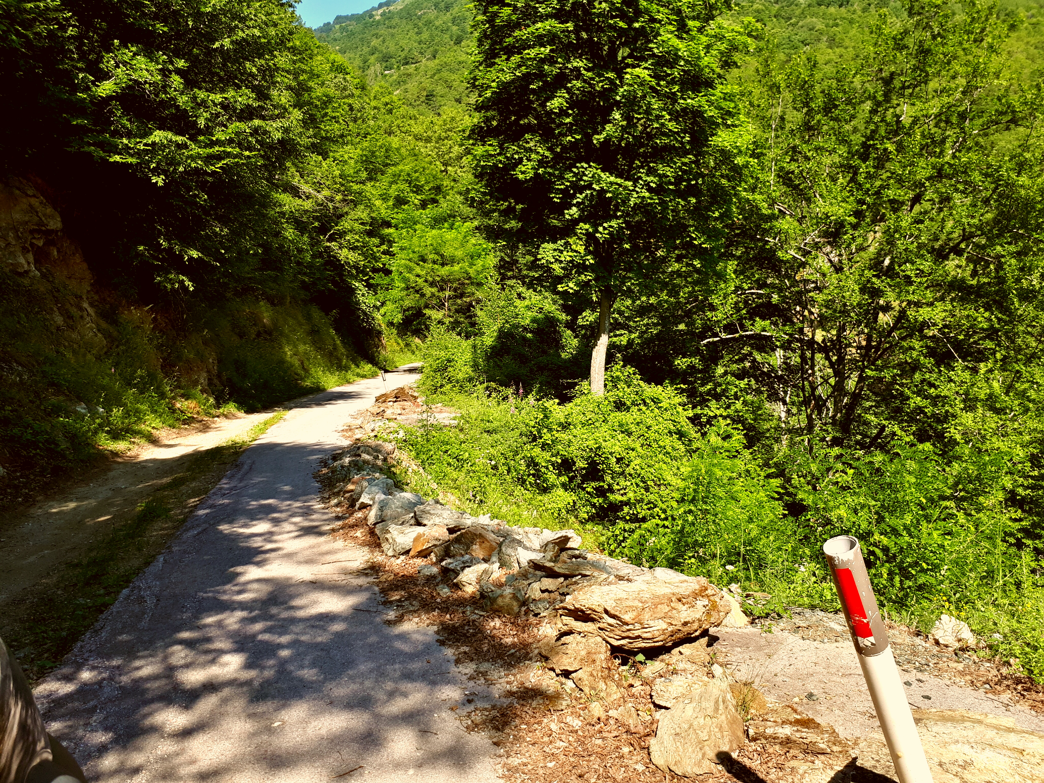 Road to the village Gorno Krušje, Makedonski Brod